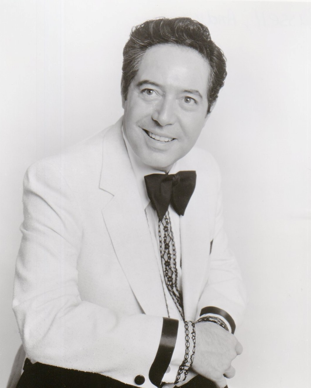 Publicity photo for Andy Russell in the later stage of his career in the 1980's.